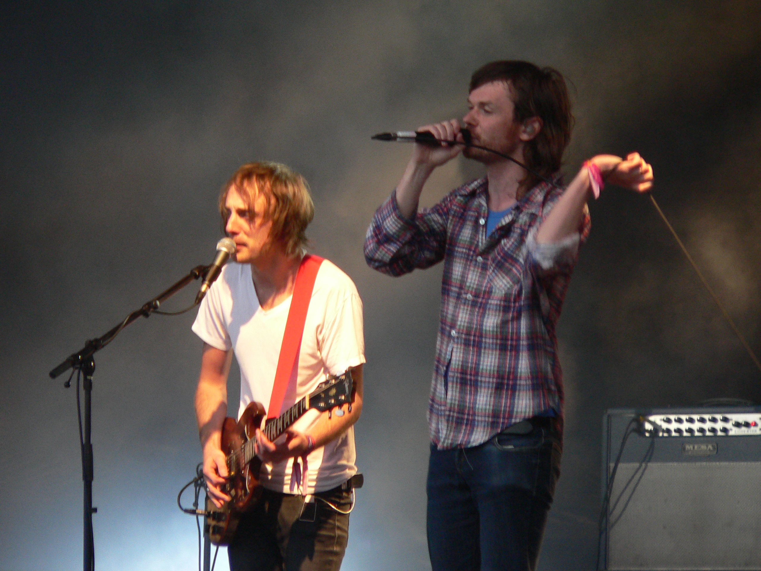 Idlewild performing at The Outsider festival in Aviemore, 2007-06-23. Taken by Iain Georgeson.